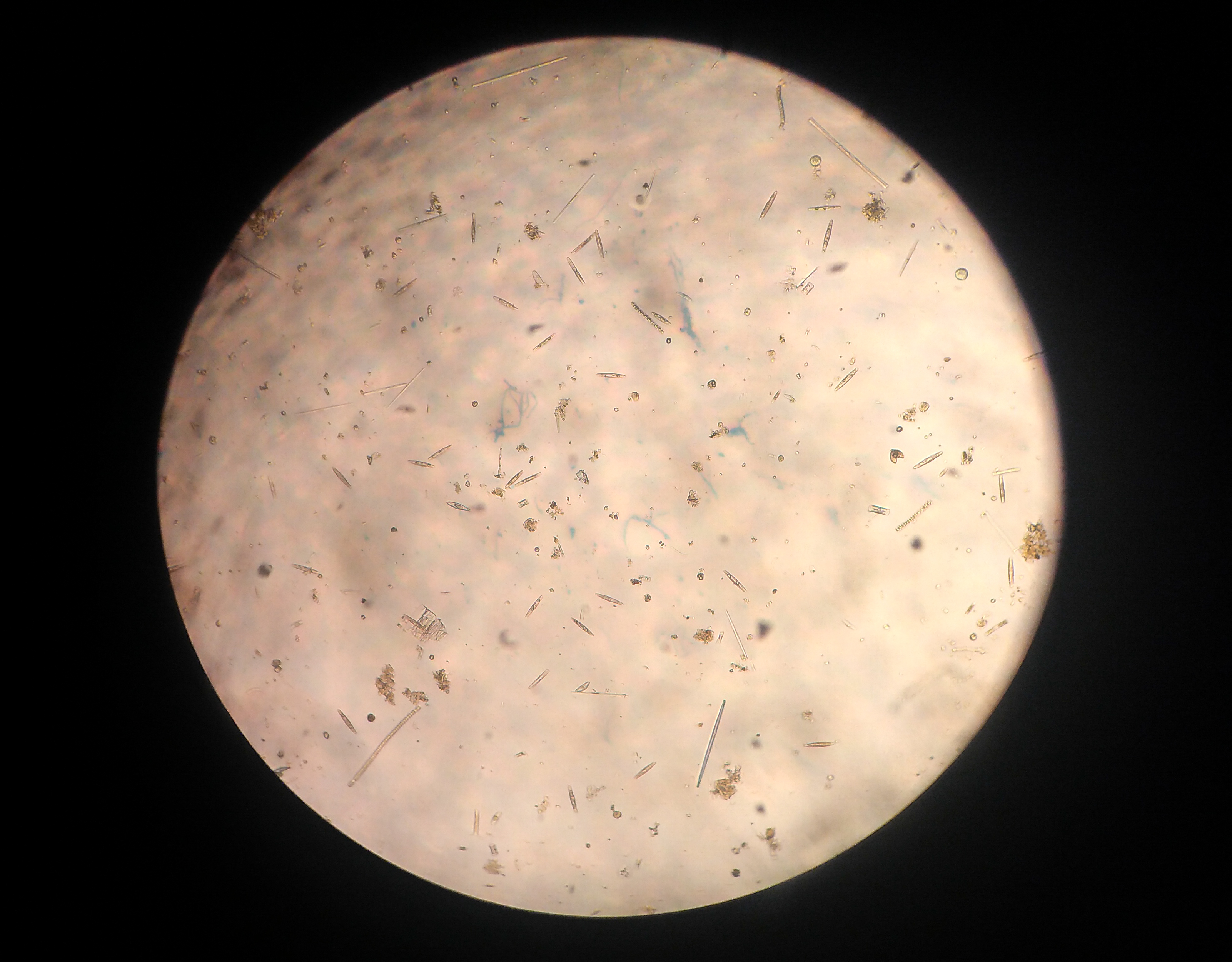 Pond Water Under the Microscope at my university laboratory.